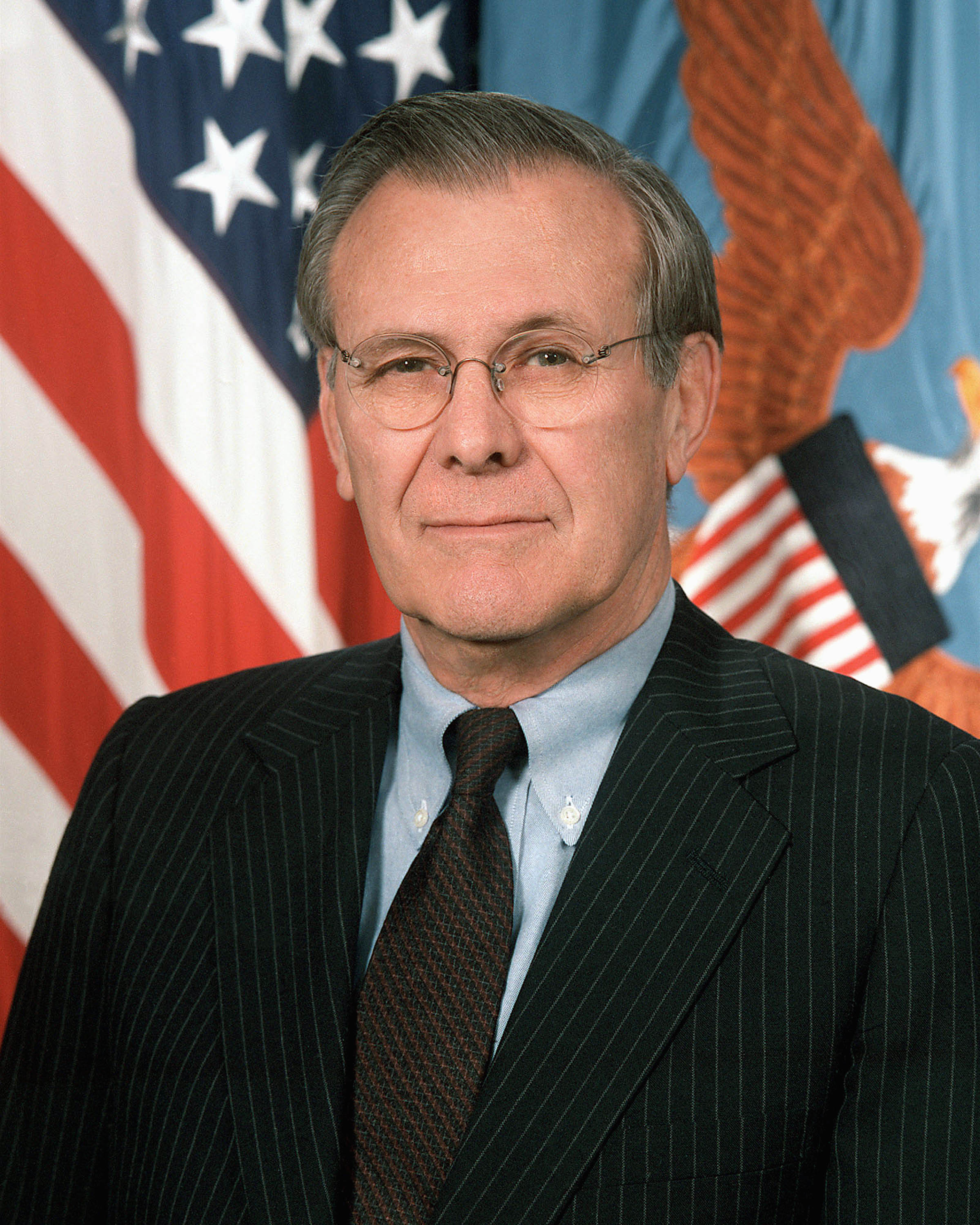 Secretary of Defense Donald H. Rumsfeld. DoD photo by Scott Davis, U.S. Army. (Released).